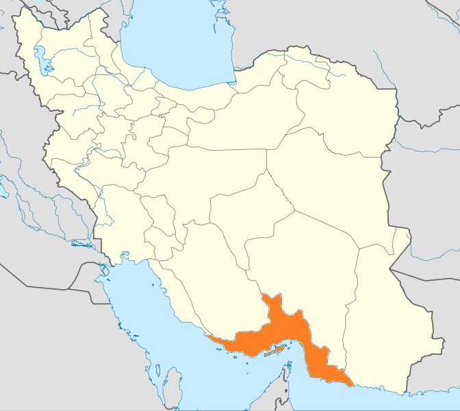 Locator map of Iran